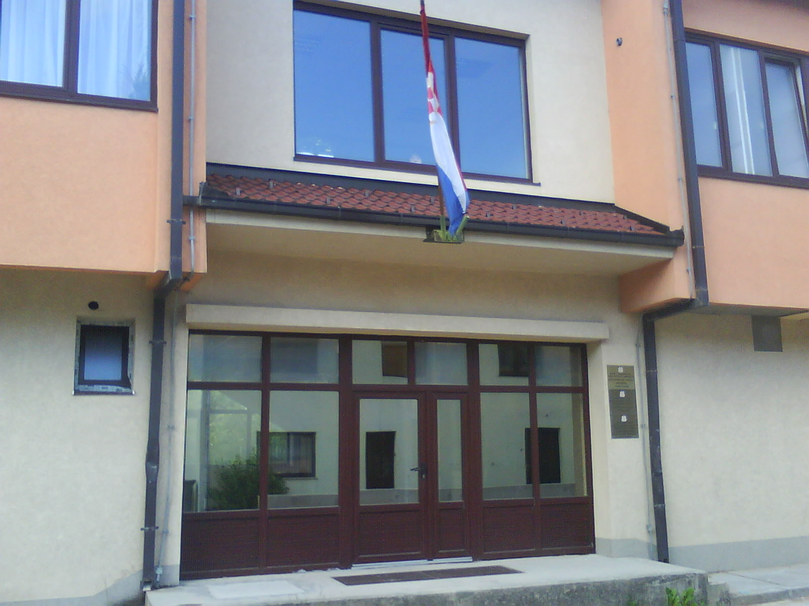 city of Tomislavgrad